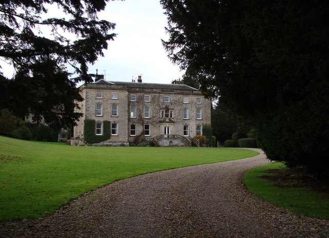 Marske Hall The Hutton family were responsible for building Marske Hall around 1597. They were still living there in 1730 when the house was rebuilt and extended in classical style.